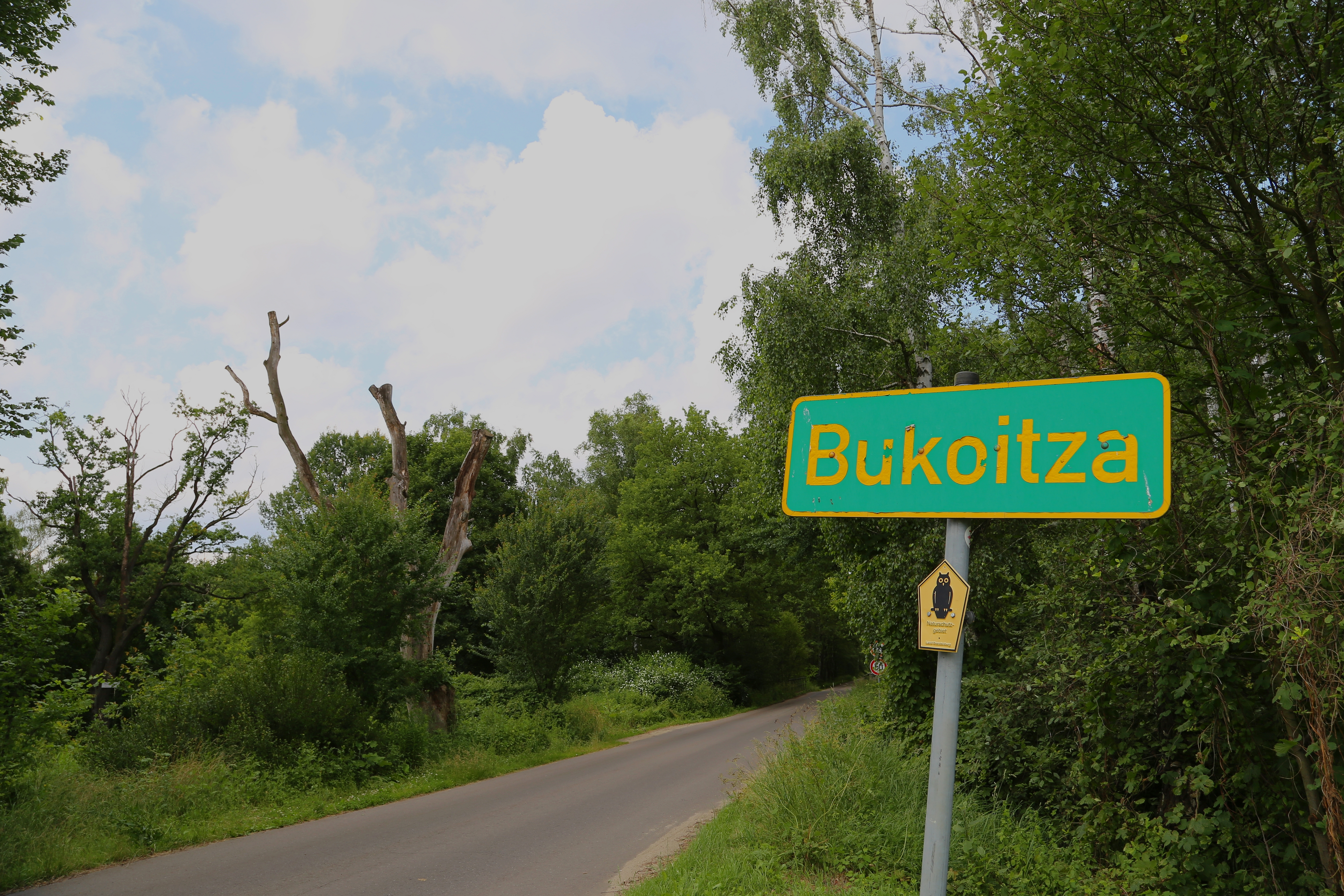 The hamlet and nature reserve Bukoitza near Lübben, Landkreis Dahme-Spreewald, Brandenburg, Germany.